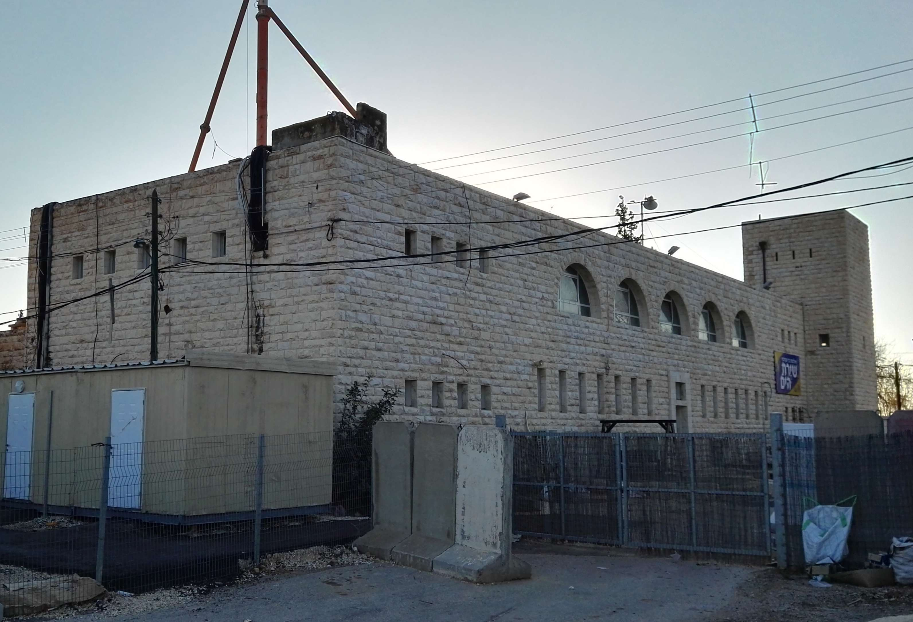 Tegart fort in the settlement Halamish.